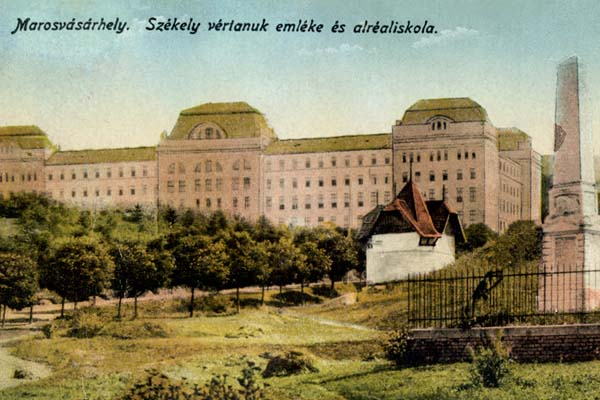 The major building of University of Medicine and Pharmacy in Marosvásárhely/Târgu Mureş.